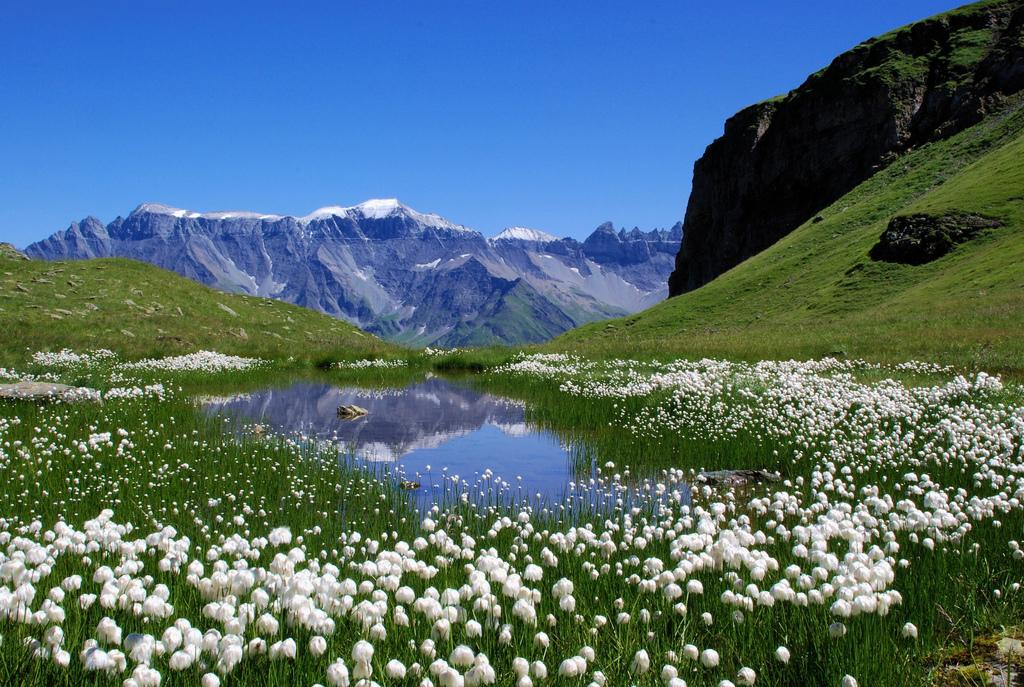 The outflow of the Chüebodensee close to Elm, Kanton Glarus. The snow-topped mountain is the Piz Sardona (3056m) and the peaks on the right, just before the rock spur blocks the sight are the Tschingelhoren (2849 m). Cotton-sedge in the foreground.